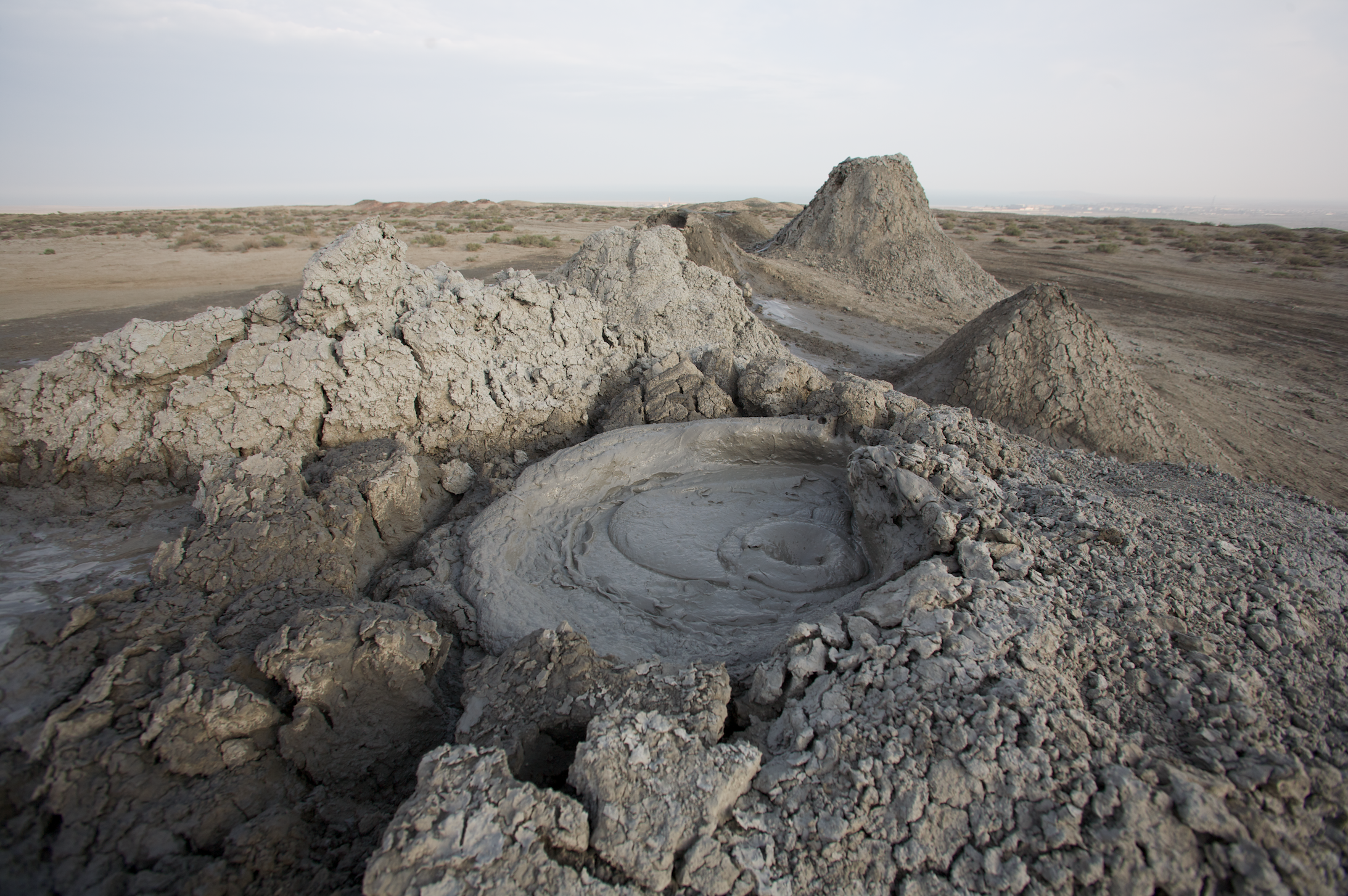 Mud Volcanoes at Gobustan State Reserve